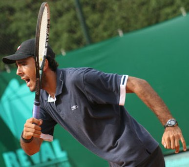 Eládio Ribeiro Neto, tennis player from Brazil